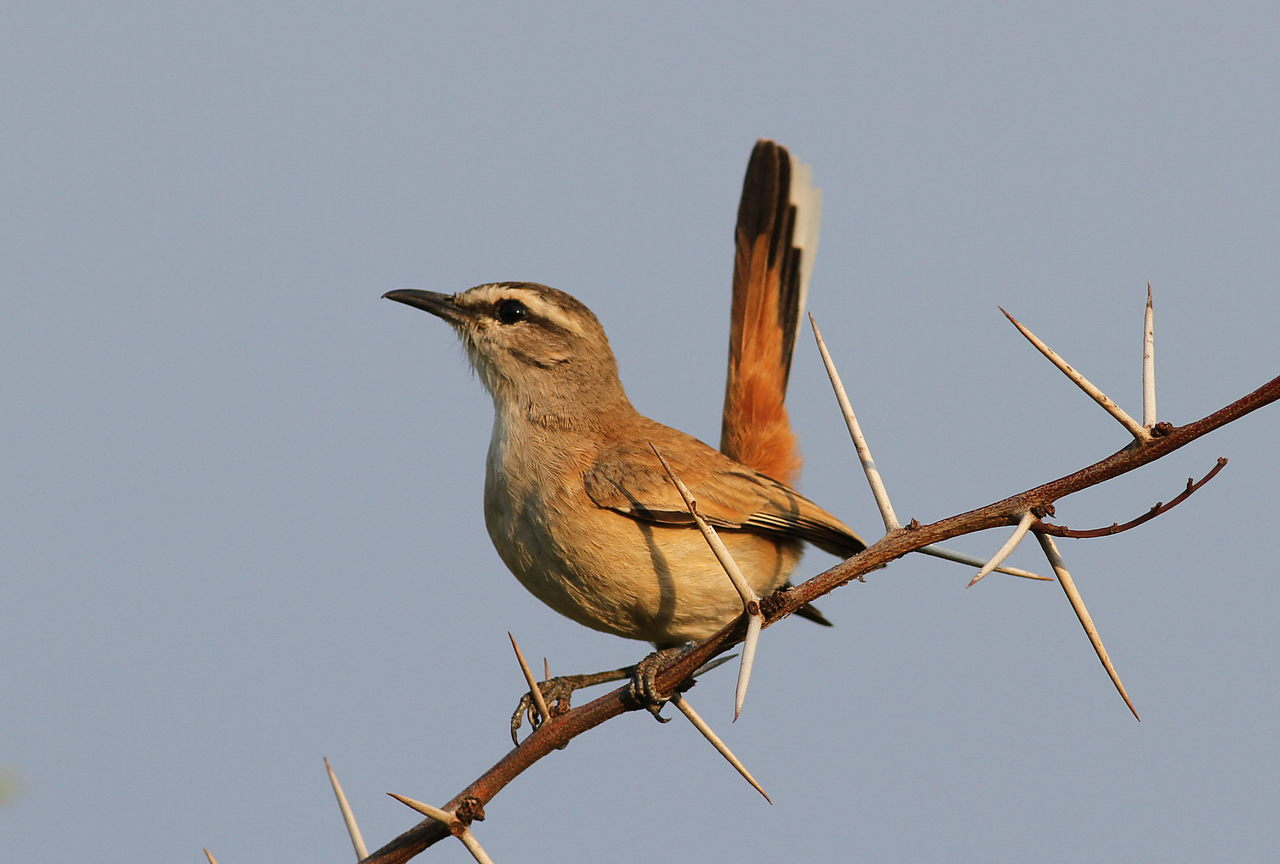 Kalahari scrub robin, Erythropygia paena at Pilanesberg National Park, Northwest Province, South Africa. Taken in early sunrise light.